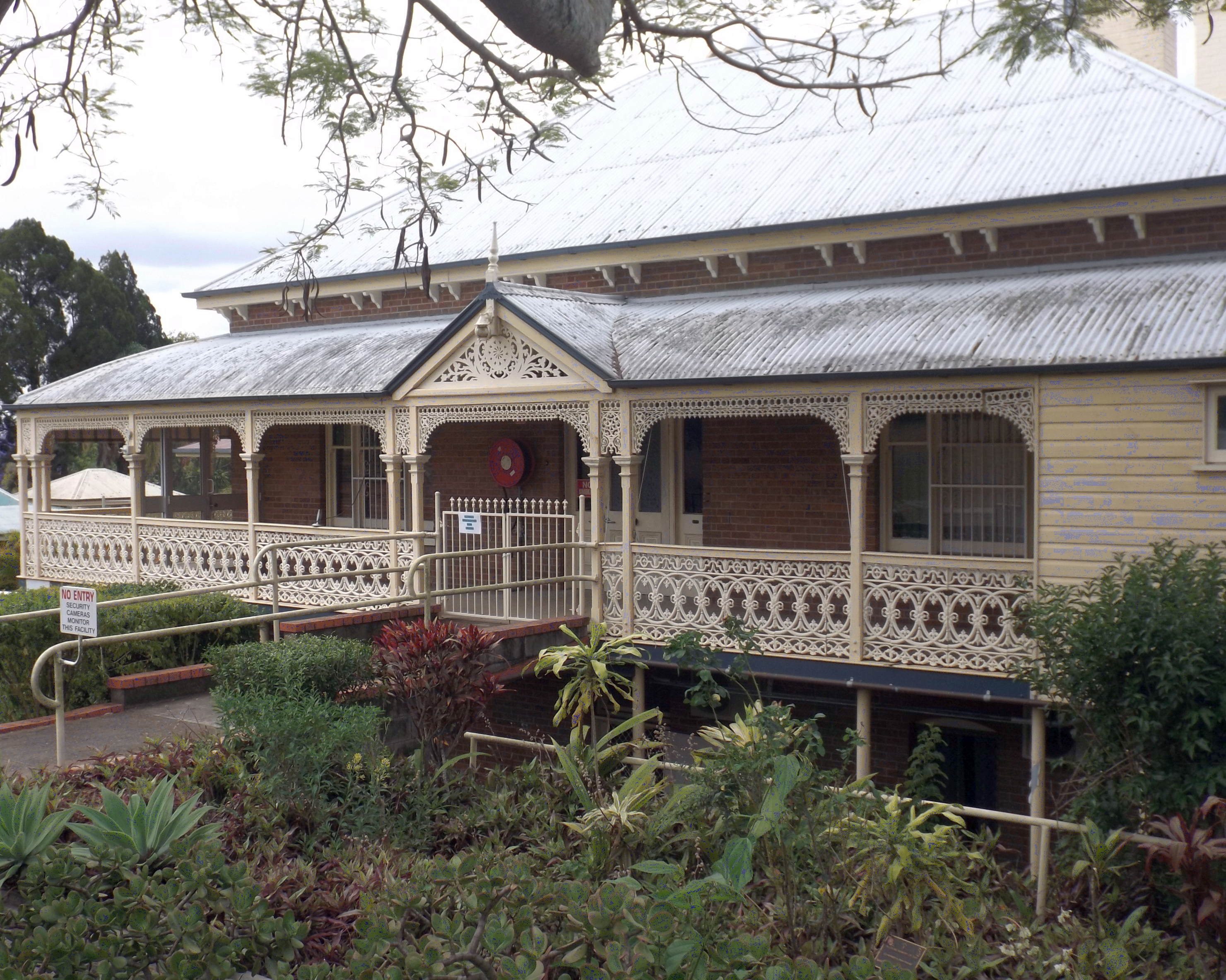 Photo of entrance to St Michaels Nursing Home Newtown, Ipswich, Queensland, Australia.